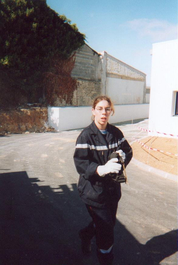 French firefighter in "Kermel®" dress (fireproof, used for non dangerous intervention and under the full fire dress), a fire belt with a "tricoise" wrench (used to fasten the hose clutches); Sainte-Soulle (Charente-Maritime)